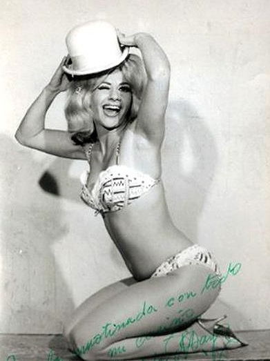 Hilda Mayo- actriz y vedette